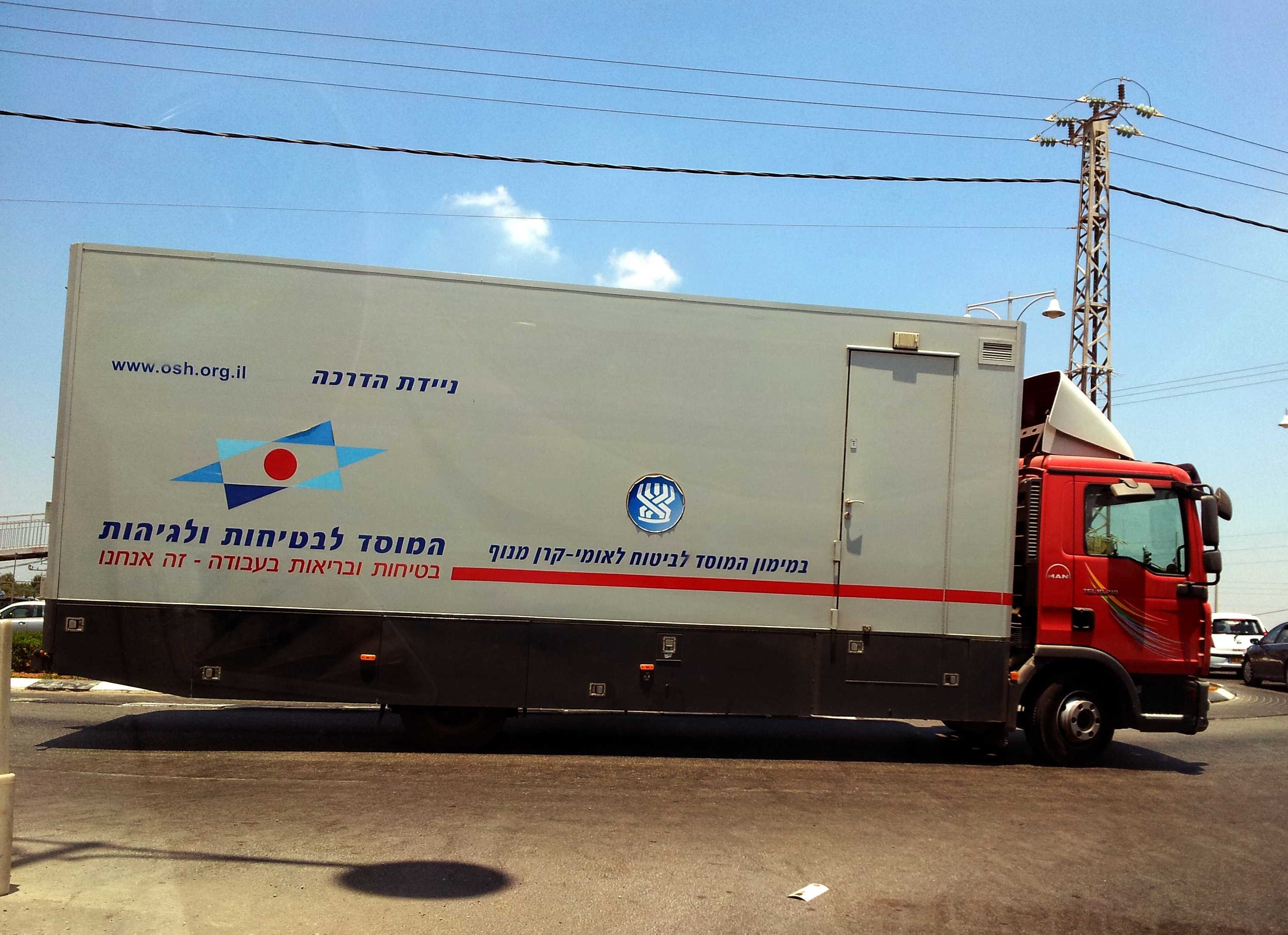 Work safety instruction car, Isarel